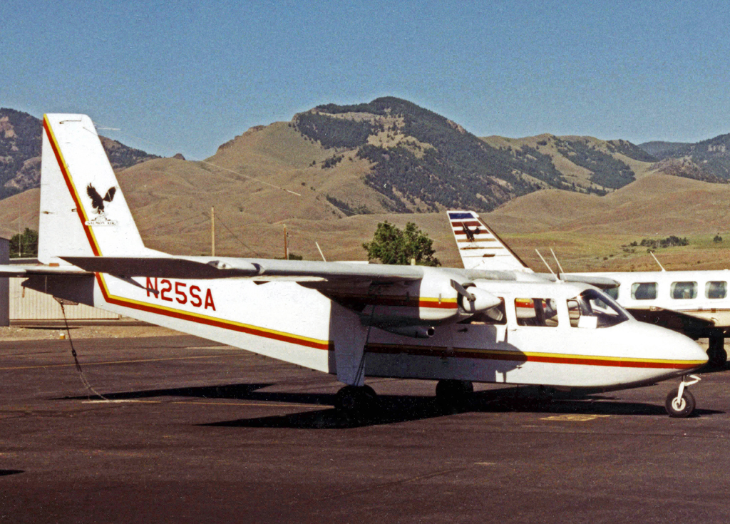 Britten-Norman BN2A Islander of Salmon Air at Lemhi County Airport near Salmon Idaho in 2000